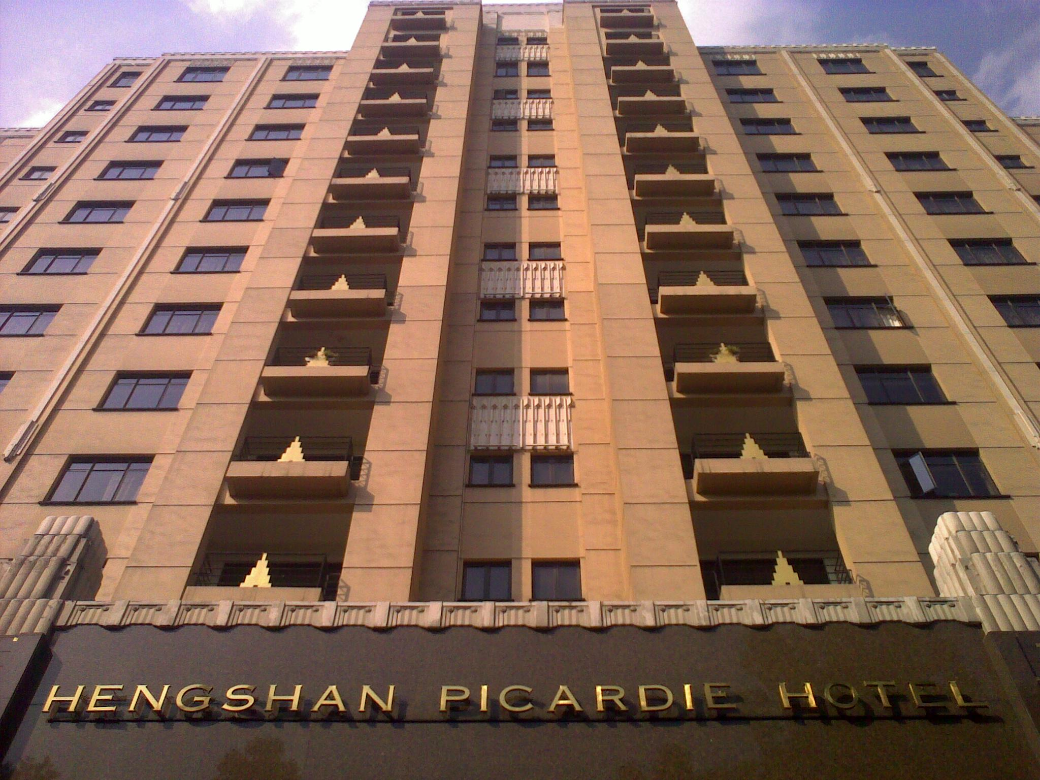 Hengshan Road No. 534